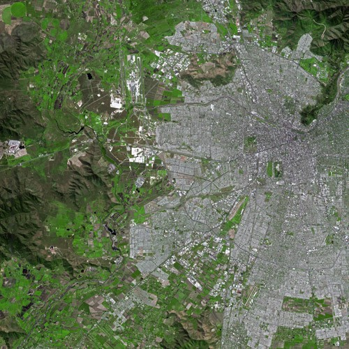 Santiago by SPOT Satellite